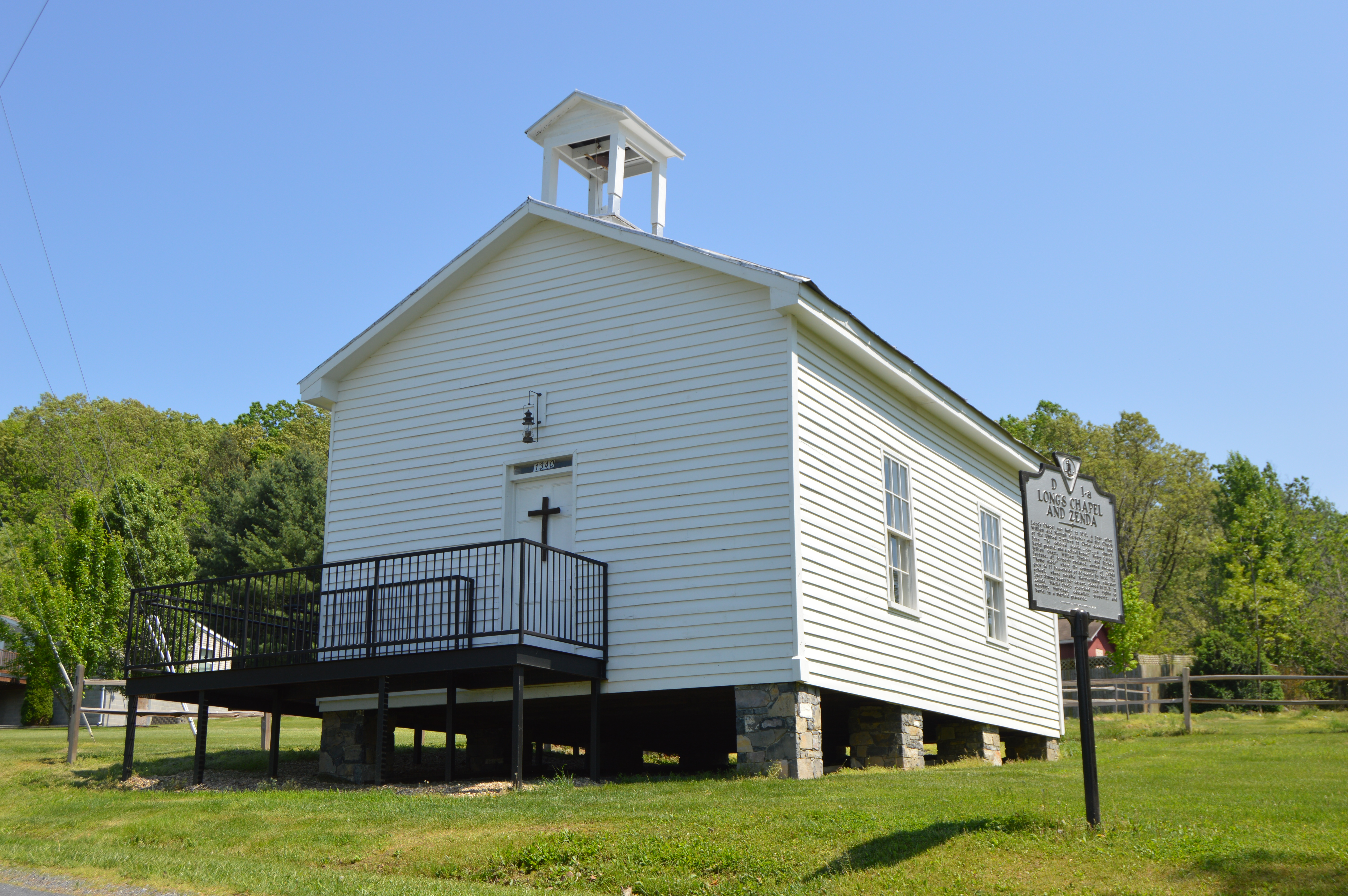 Front and western side of the former Longs Chapel, located at 1340 Fridleys Gap Road southeast of Lacey Spring in Rockingham County, Virginia, United States. Built in 1871, it is listed on the National Register of Historic Places.